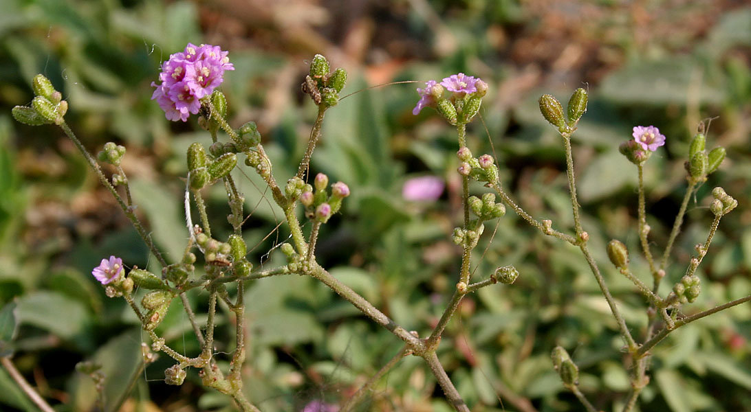 Boerhavia diffusa - Spreading Hogweed, Punarnava or Red spiderling in Amaravati, Andhra Pradesh, India.